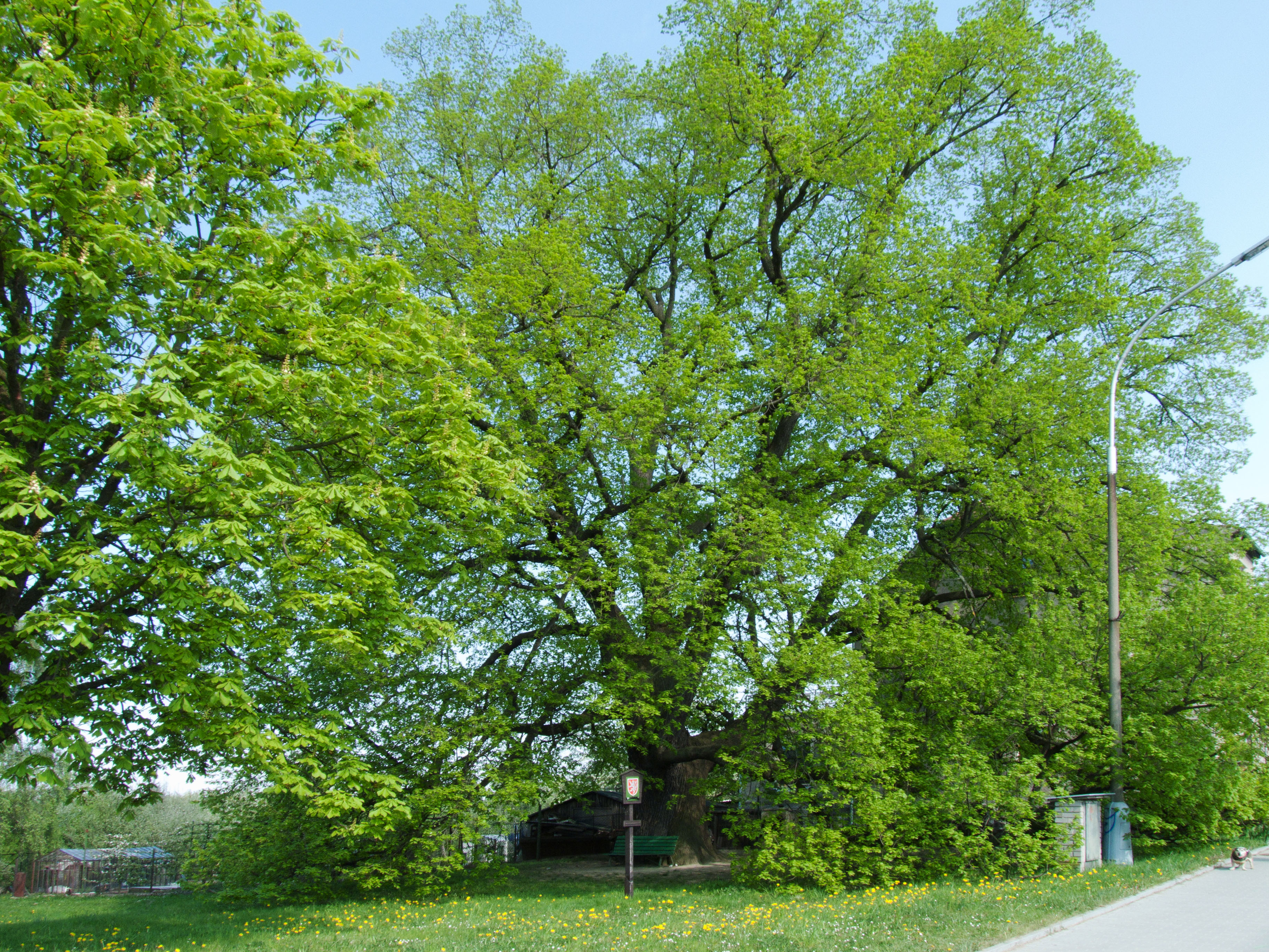 Protected lime-tree in the village of Přední Ptákovice, part of the town of Strakonice, Czech Republic, 350-400 years old. Česky: Památná Václavská lípa ve vsi Přední Ptákovice, části města Strakonice, stará 350-400 let.